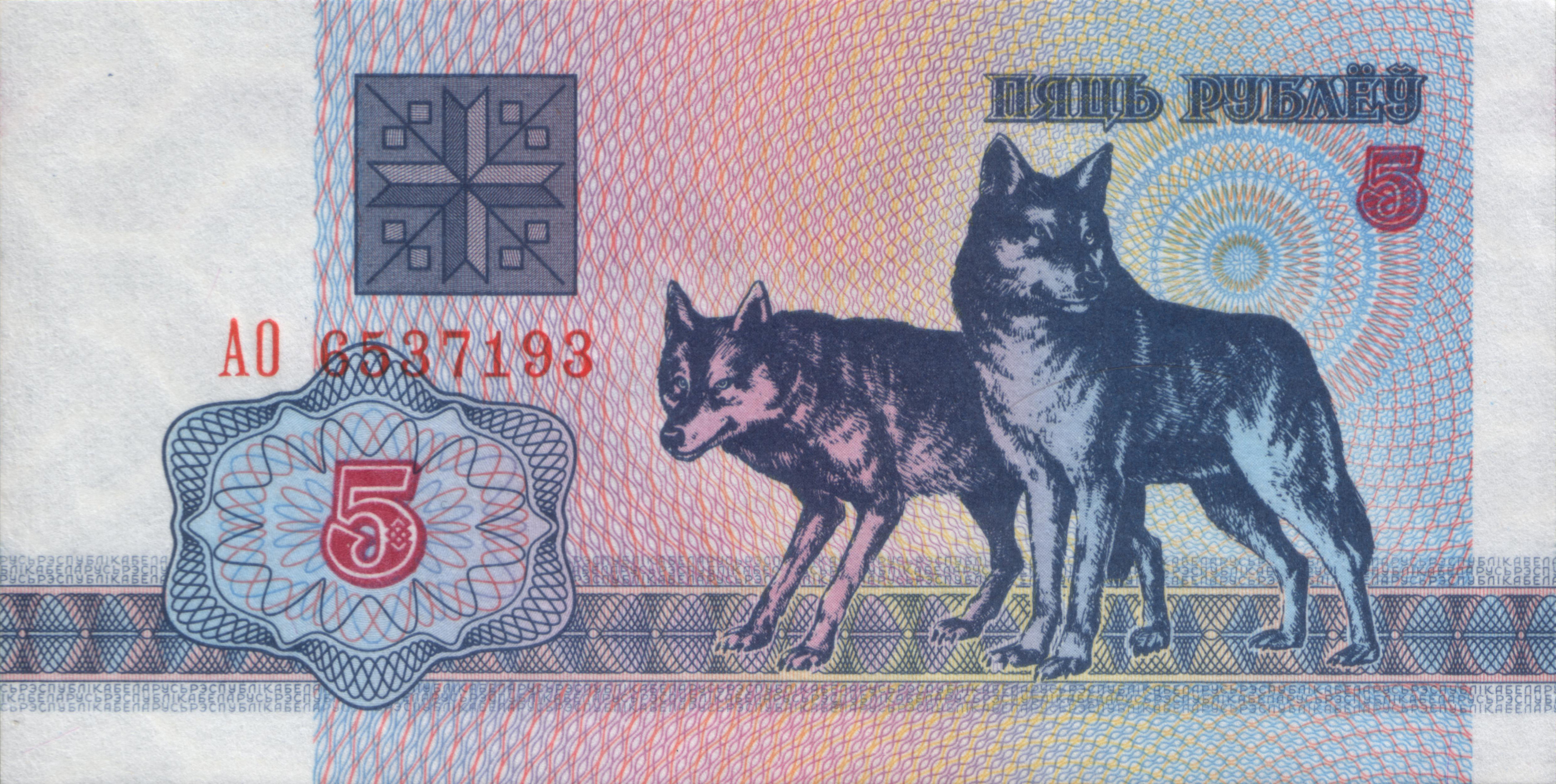 5 roubles of Belarus (1992)